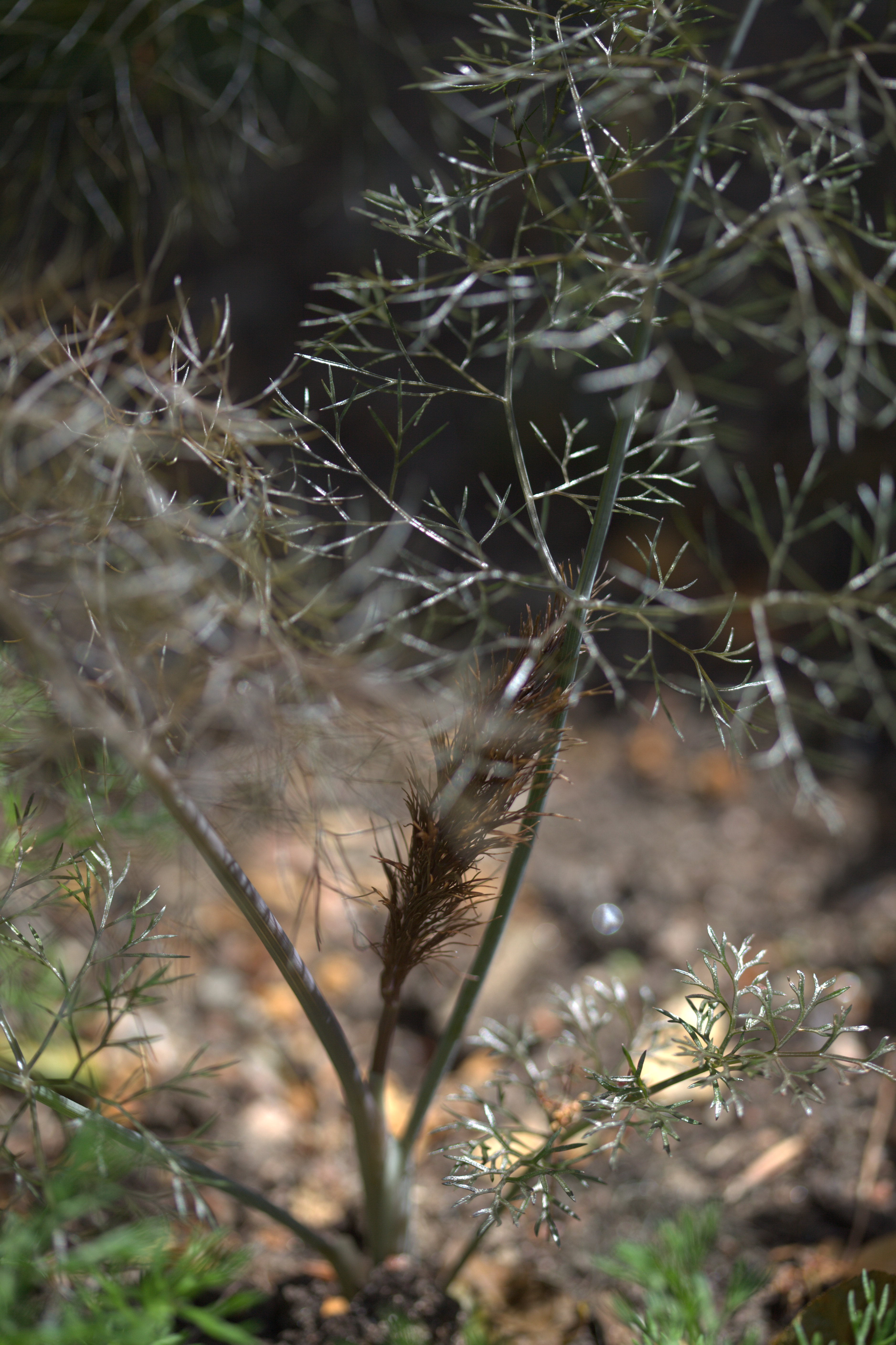 Photo taken at Gothenburg botanical garden. Specimen id: 1900-4680 s G